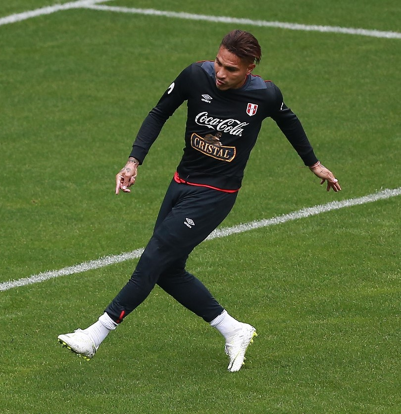 Paolo Guerrero